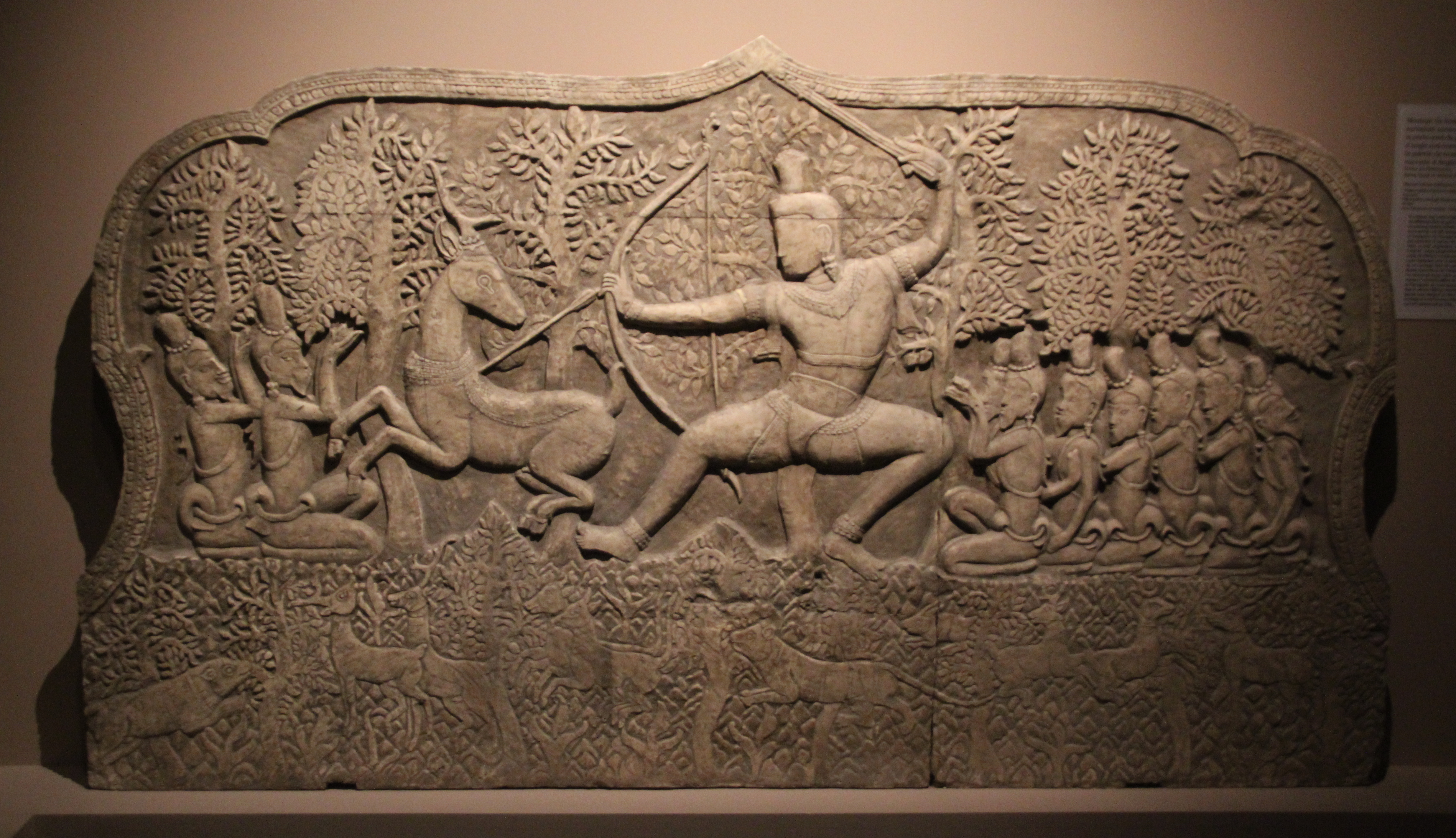 Picture taken during Angkor : Naissance d'un mythe - Louis Delaporte et le Cambodge, an exhibit held at the Guimet Museum in Paris, France.